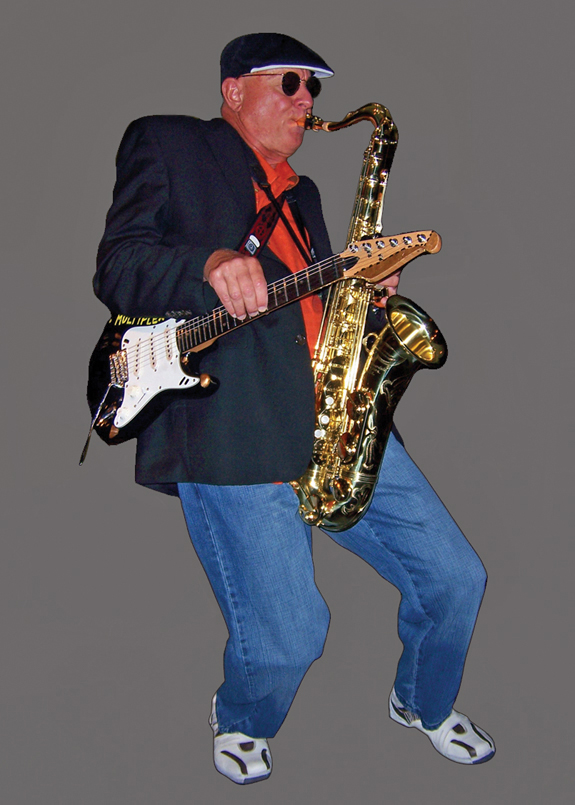 photo of Kenny Millions